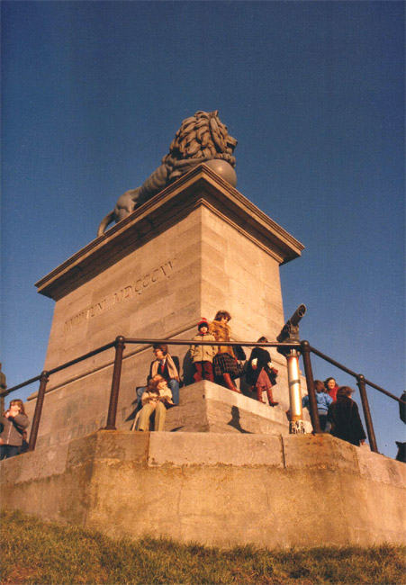 Waterloo, the top of the knoll and the famous lion.